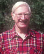 Photograph taken in the gardens of Pen-y-Gwryd of the Kangchenjunga reunion of 1990. Left to right front: Neil Mather, John Angelo Jackson, Charles Evans and Joe Brown Left to right rear: Tony Streather, Norman Hardie, George Band and Prof. John Clegg.